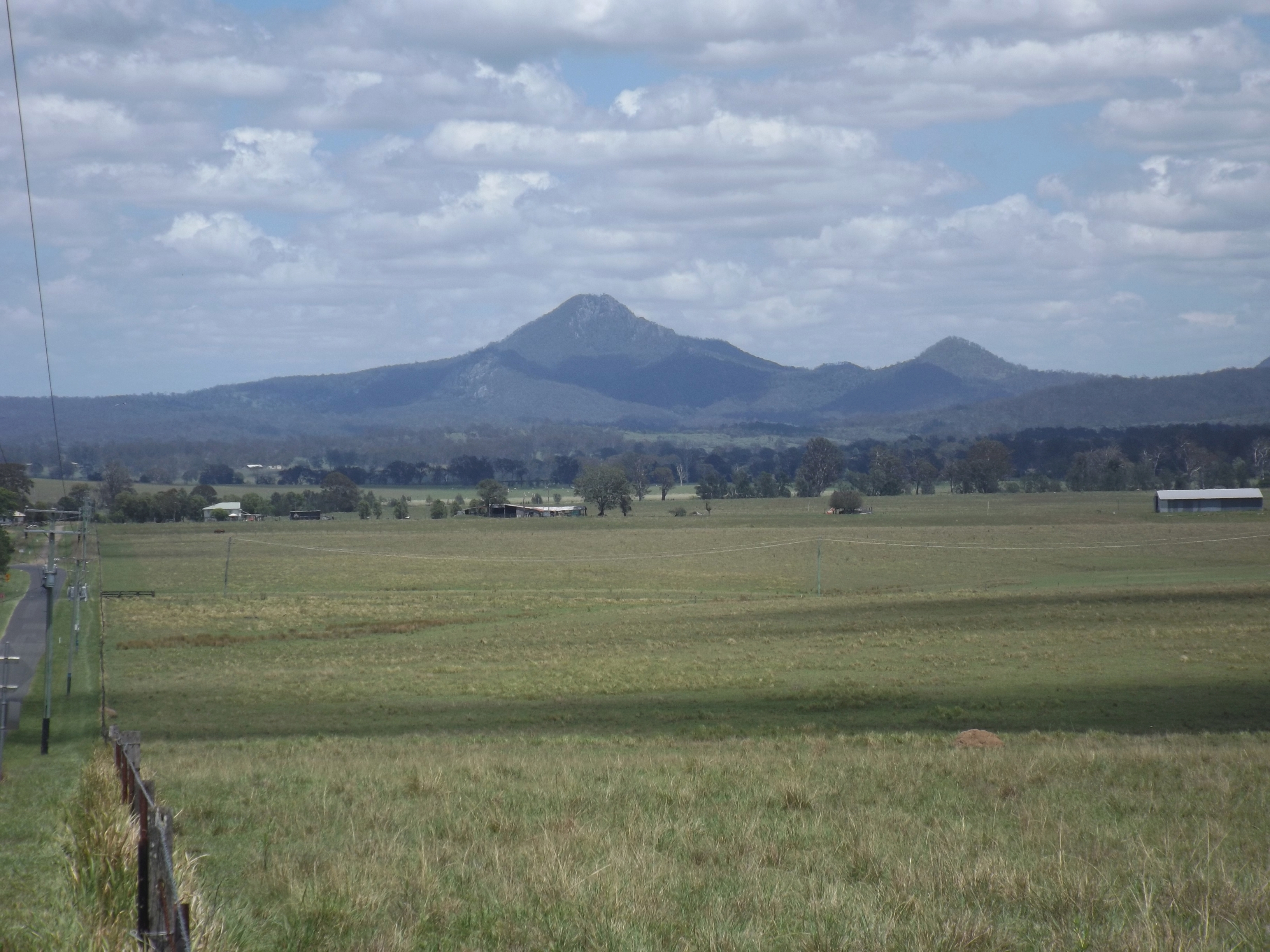 Photo of Flinders Peak from Cedar Grove, Logan City, Queensland, Australia.